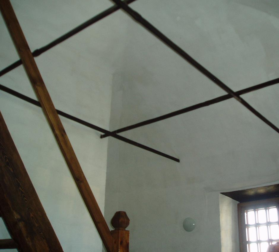 Nevyansk tower in Sverdlovsk oblast, Russia: corner of acoustic room.